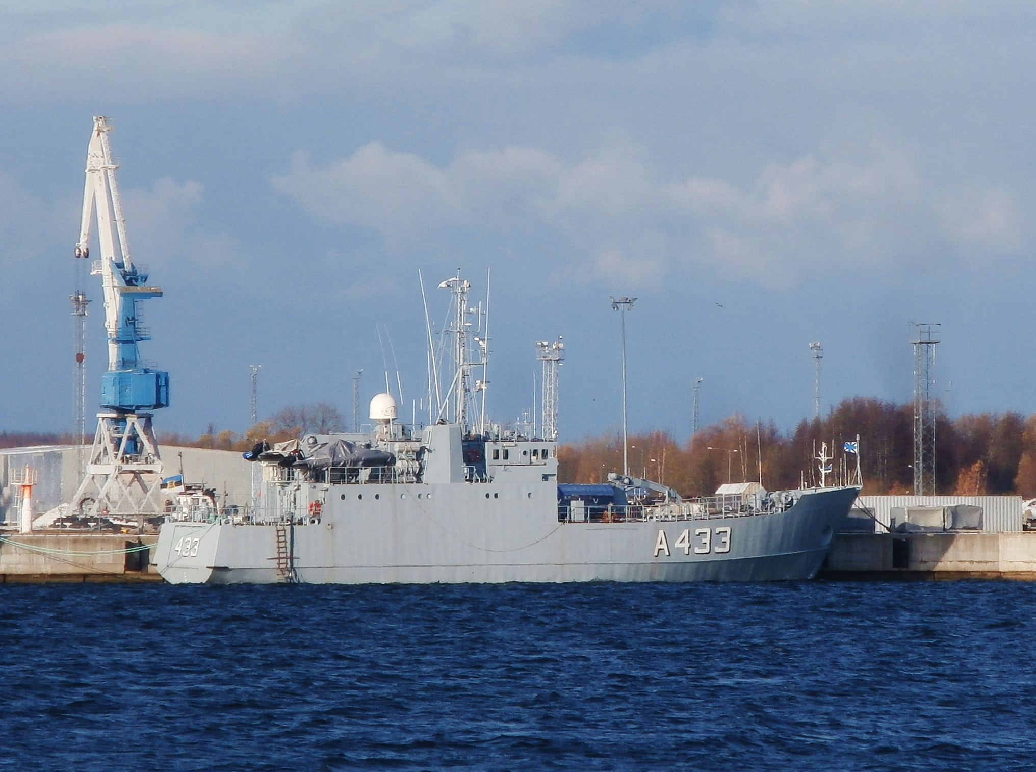 A433 Wambola at quay 6 in Miinisadam Tallinn 6 November 2016